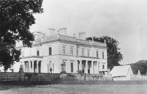 Shobrooke House, in the parish of Shobrooke, near Crediton, Devon. Built circa 1850, destroyed by fire 23 January 1945 and later demolished.